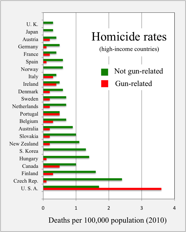 Graph comparing gun-related homicide rates to non-gun-related homicide rates in high-income countries, 2010. Countries are ordered based on increasing total homicide rates. Source of raw data: (March 2016). "Violent Death Rates: The US Compared with Other High-income OECD Countries, 2010". The American Journal of Medicine 129 (3): 266–273. (Table 4). (PDF). Footnote, with links, is below.[1] Country Firearm Homicide Rate Non-Firearm Homicide Rate Total Homicide Rate U. S. A. 3.6 1.7 5.3 Czech Rep. 0.1 2.4 2.6 Finland 0.3 1.6 1.9 Canada 0.5 1 1.5 Hungary 0.1 1.4 1.5 S. Korea 0 1.3 1.3 New Zealand 0.2 1.1 1.2 Slovakia 0.2 1 1.2 Australia 0.2 0.9 1.1 Belgium 0.3 0.7 1.1 Portugal 0.5 0.5 1 Netherlands 0.2 0.7 0.9 Sweden 0.2 0.7 0.9 Denmark 0.2 0.6 0.8 Ireland 0.4 0.5 0.8 Italy 0.3 0.4 0.8 Norway 0 0.6 0.7 Spain 0.1 0.6 0.7 France 0.2 0.4 0.6 Germany 0.1 0.5 0.6 Austria 0.2 0.4 0.5 Japan 0 0.3 0.3 U. K. 0 0.3 0.3